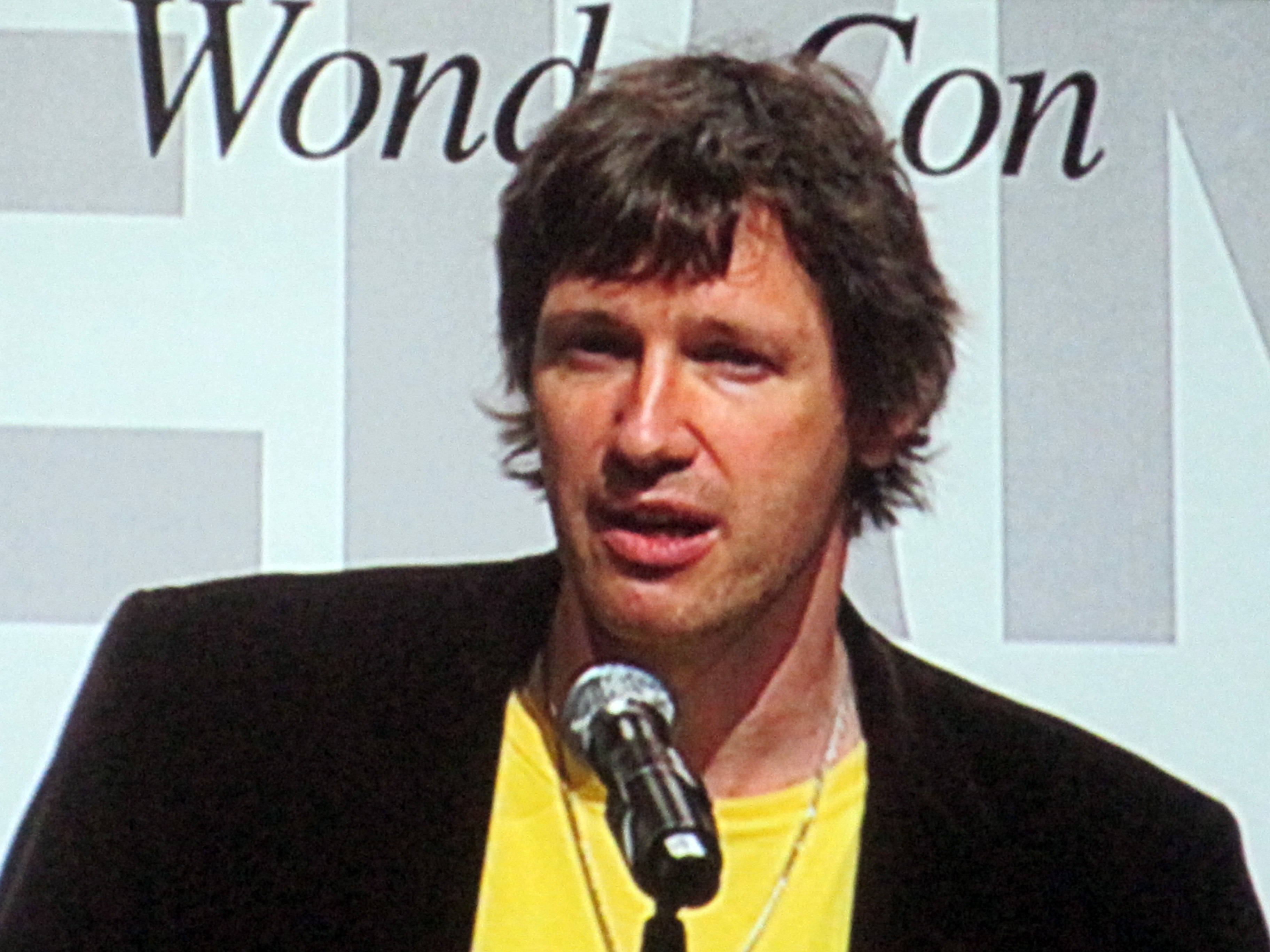 Paul W. S. Anderson, director of Resident Evil: Afterlife, discusses the film at a panel at WonderCon 2010.